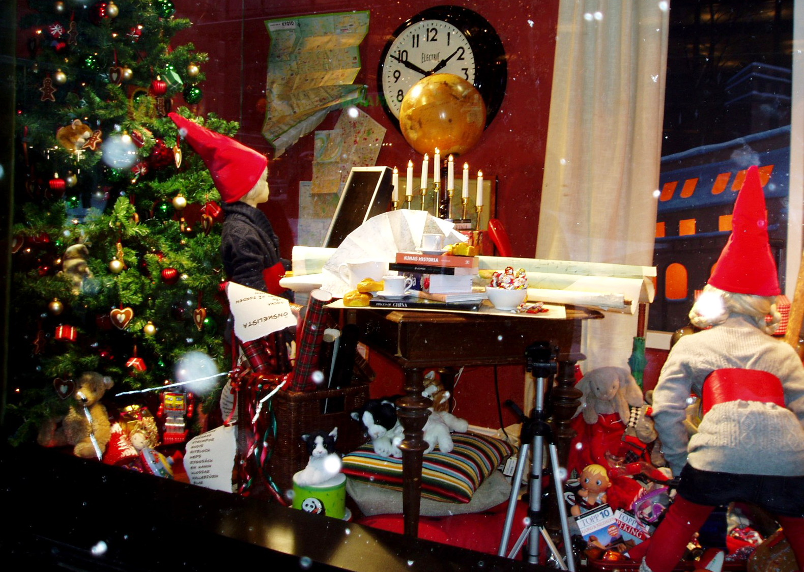 Display window, Nordiska Kompaniet, Stockholm, Christmas